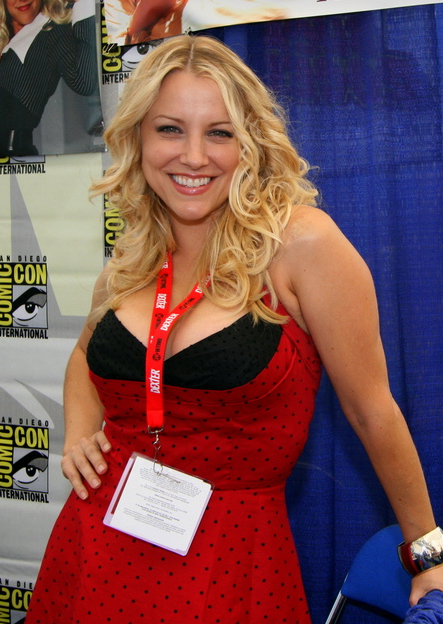 Actress Brittney Powell at the San Diego Comicon in 2010